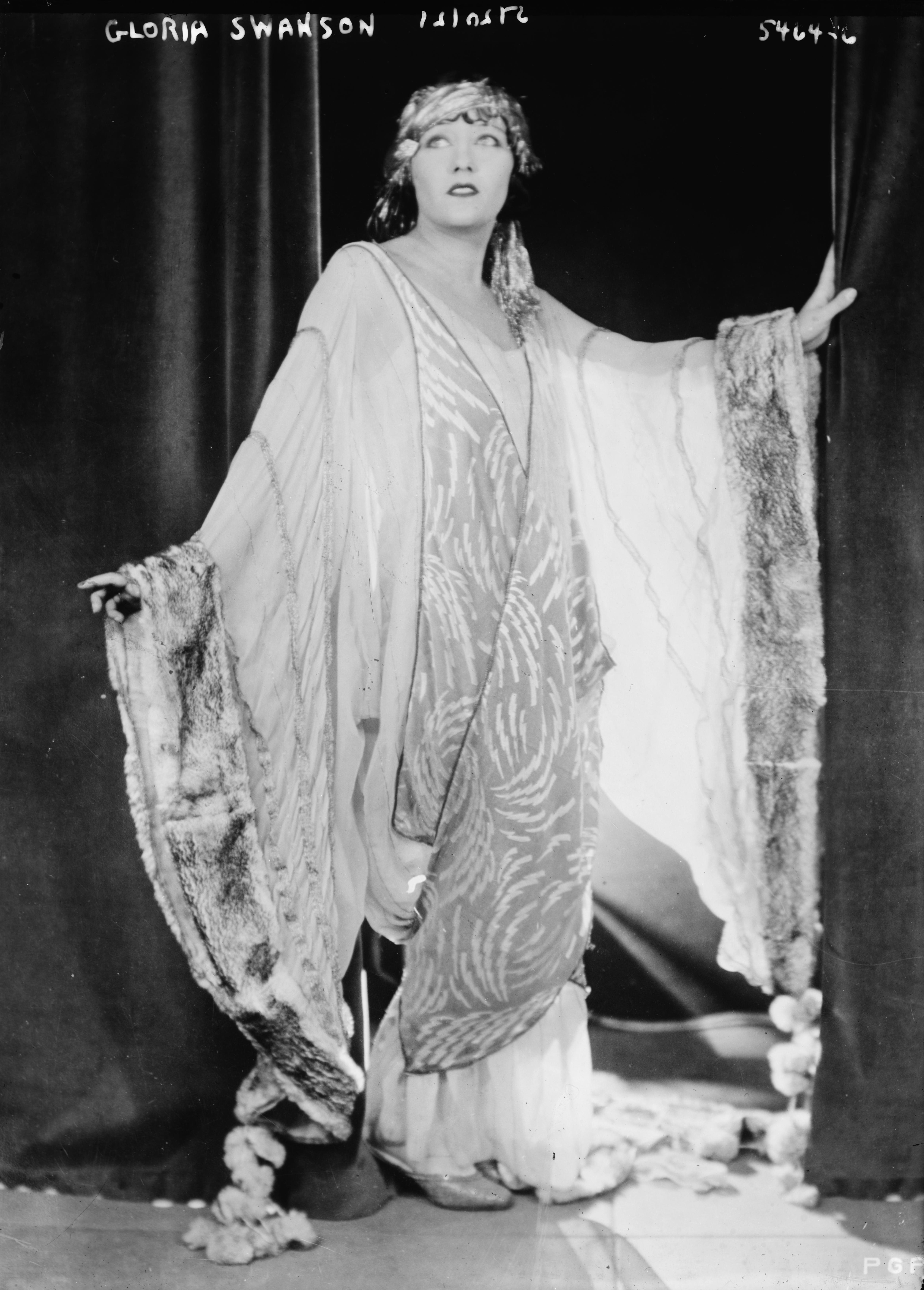 Gloria Swanson